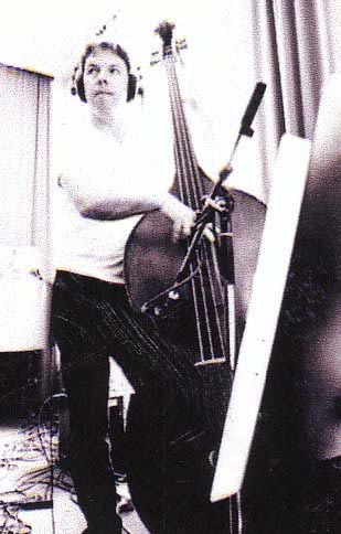 Gerhard Graml, bass player